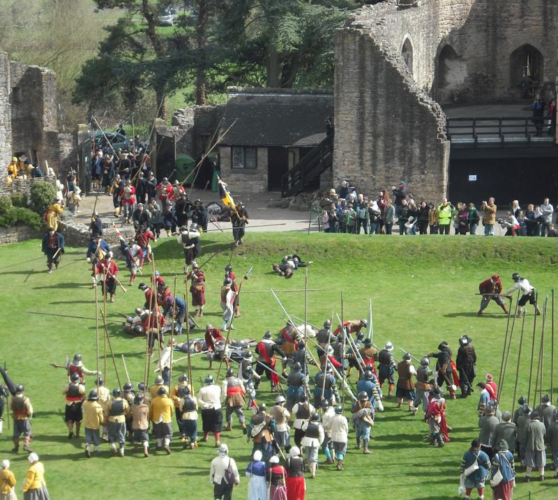 Re-enactment of a parliamentarian attack on Caldicot castle during the English Civil War. Re-enactors are the Sealed Knot.